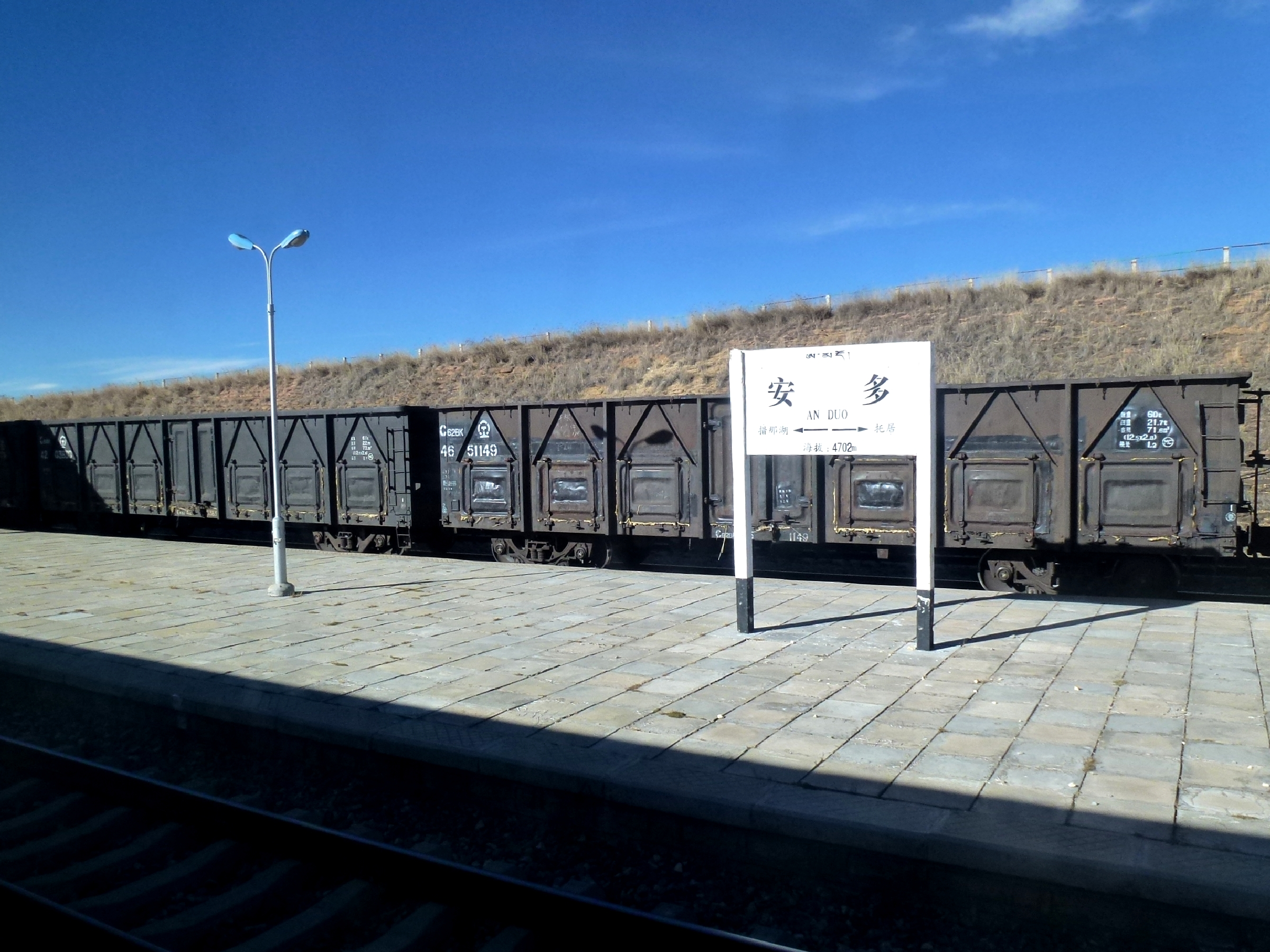 4,702m Amdo Railway Station Qinghai Tibet Railway Tibet China 西藏 青藏铁路 安多站